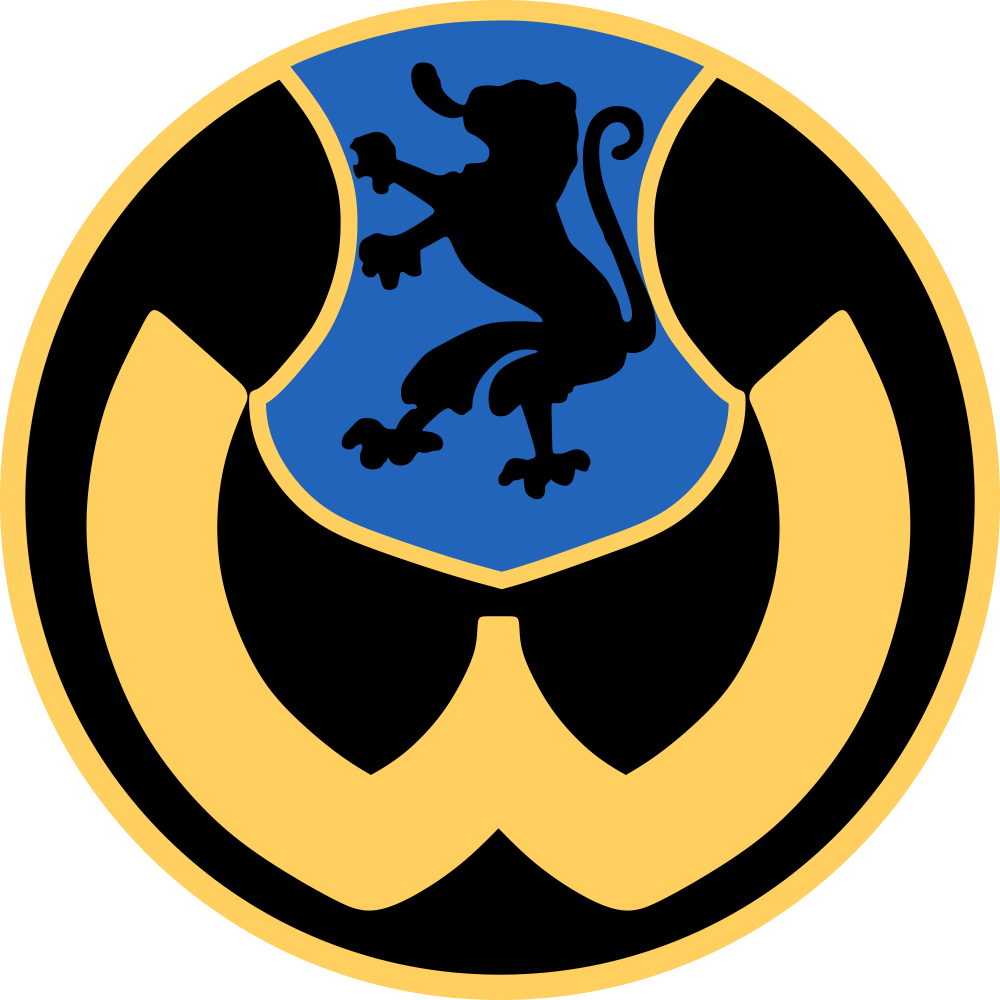 Historic logo of german football club Schwarz-GelbW eißenfels (1931)